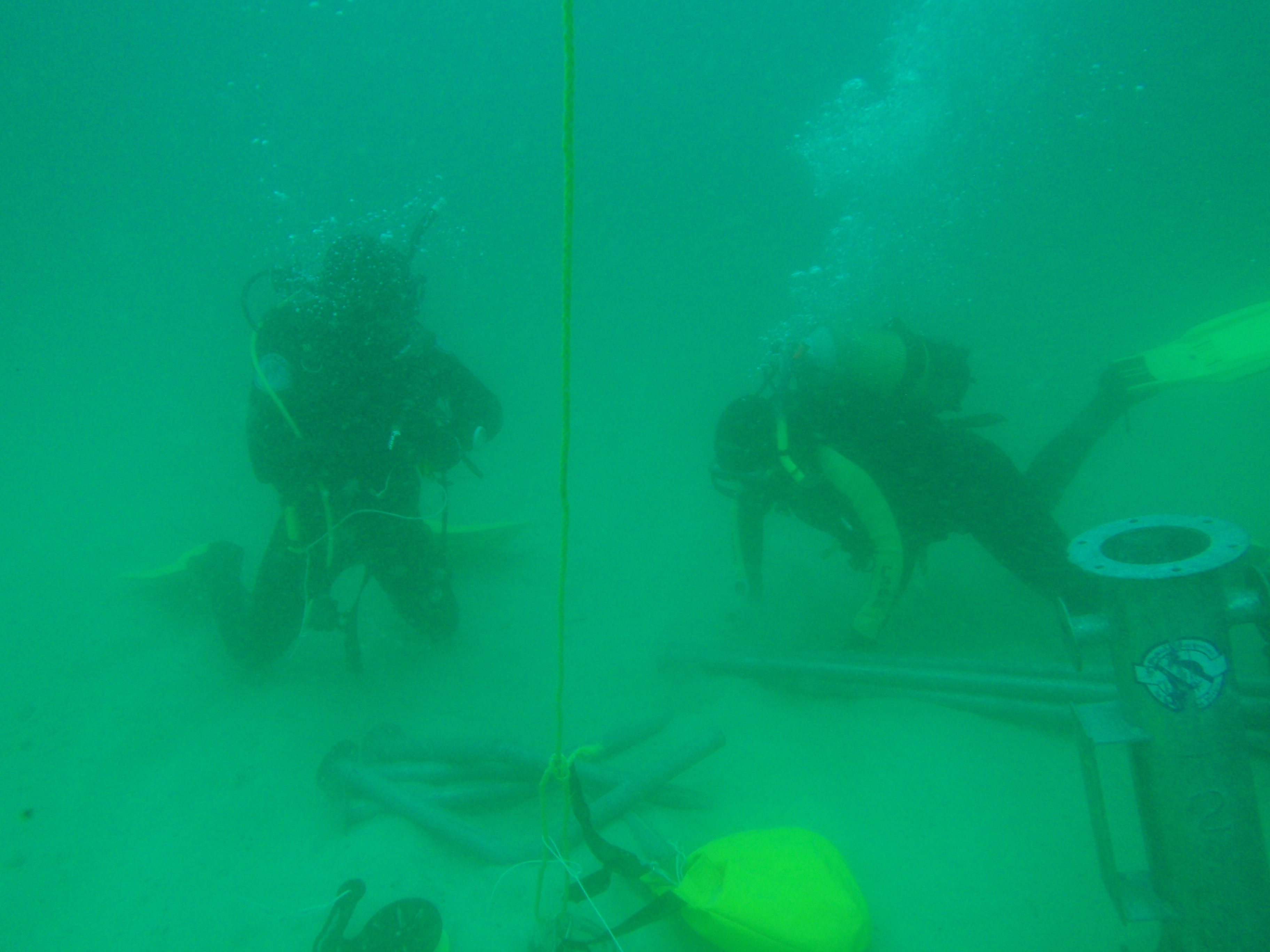 Commercial Class IV diver training at Kalk Bay off the wall, Kalk Bay.